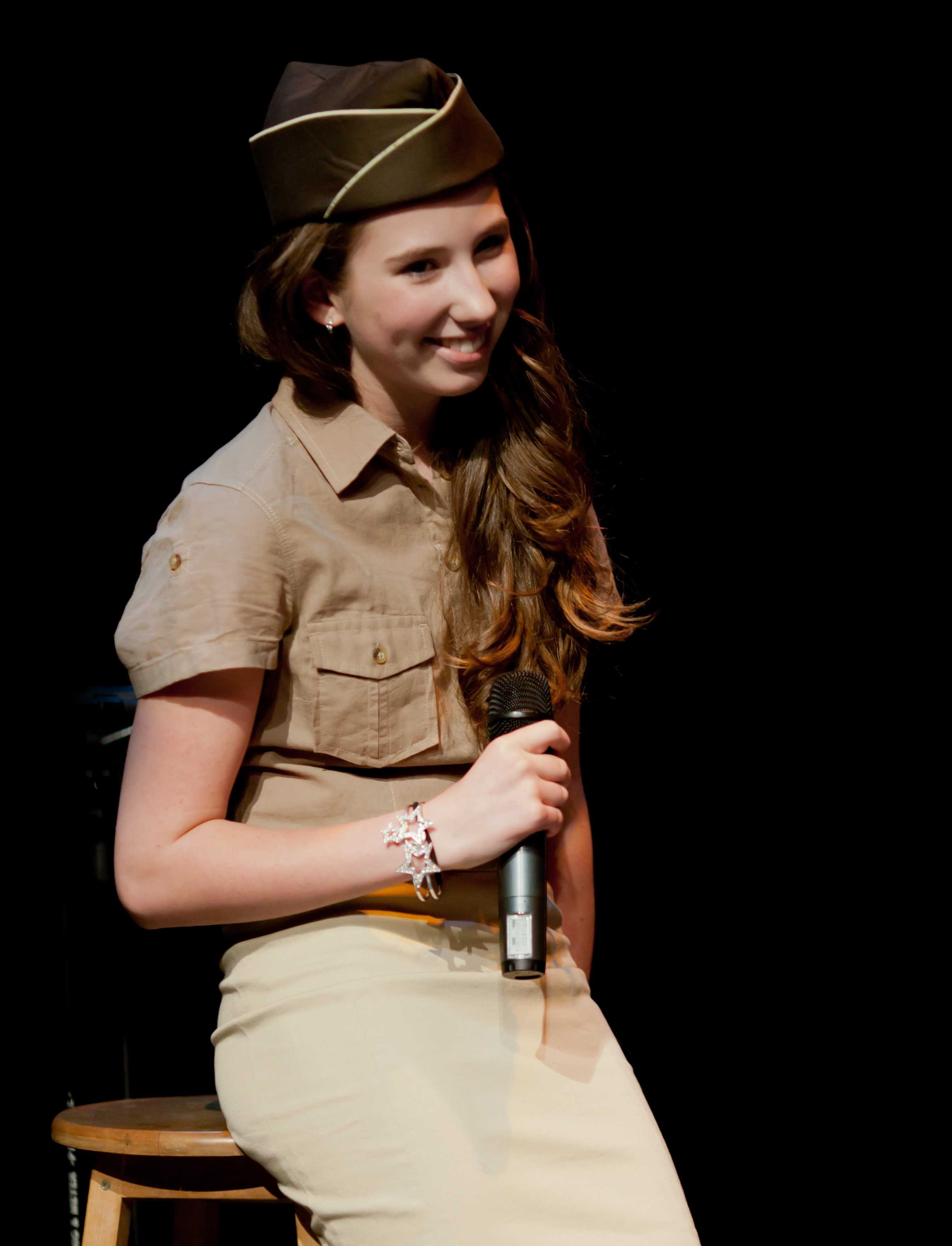 13 year old Michelle Creber performing "Boogie Woogie Bugle Boy"